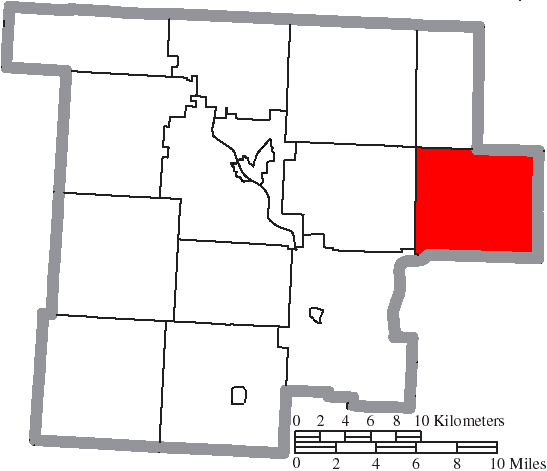 Map of the municipal and township boundaries of Morgan County, Ohio, United States, as of the 2000 census, with the location of Center Township highlighted. Township borders are shown only in unincorporated areas in order to differentiate incorporated and unincorporated areas more clearly.